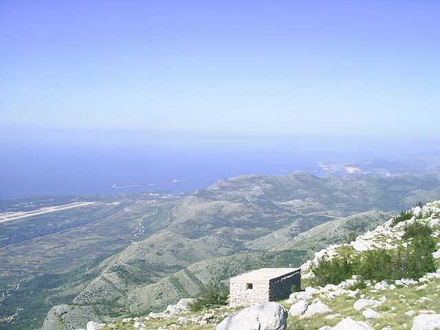 Adriatic sea seen from the Snježnica hill, Croatia